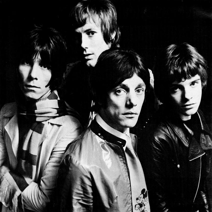 Trade ad for The Herd's single "I Don’t Want Our Loving to Die".To better adapt it to his respective Wikipedia article, the ad was cropped and cleaned in a graphics editing program. The original can be viewed at the source below.